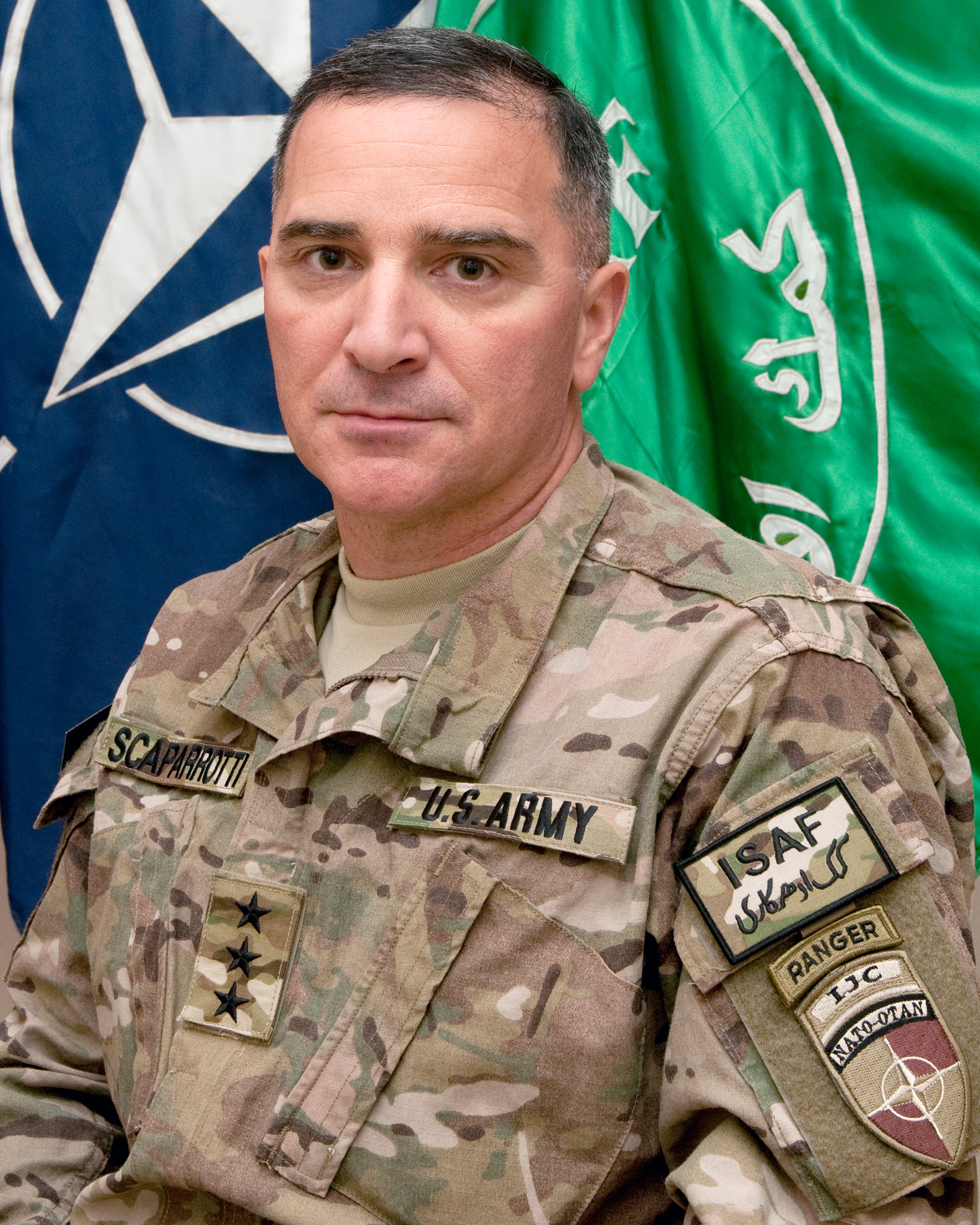 Official Command photo ISAF Joint Command (2011)